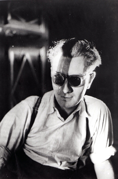 Joan Brossa amb ulleres de sol a "Els Furiosos"